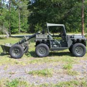 American Growler combat vehicle